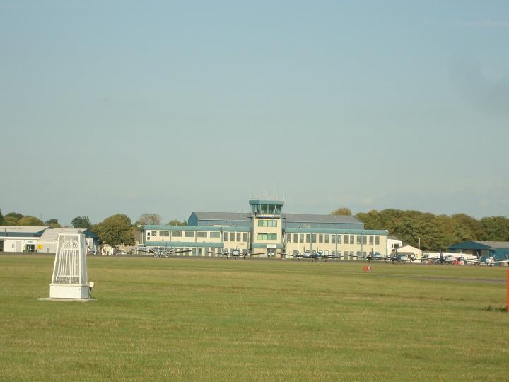 The Oxford Aviation Academy's headquarters at London Oxford Airport, Oxfordshire, UK.